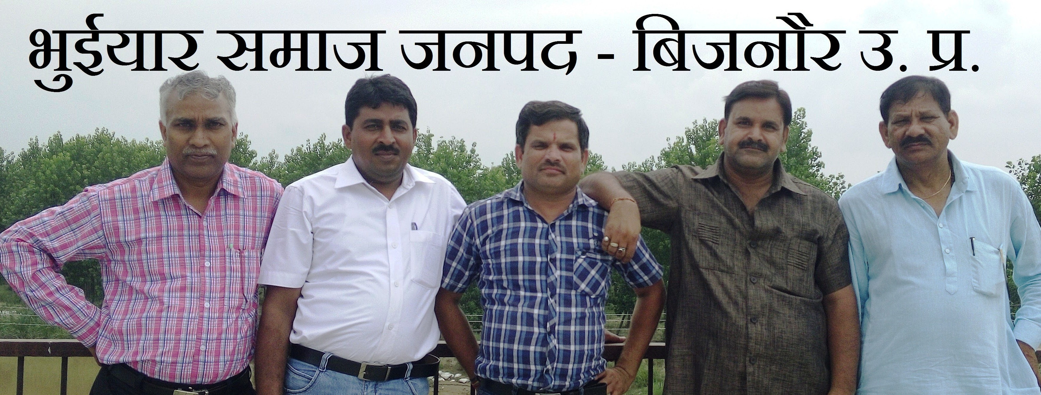 In this picture some Bhuiyar people shown.